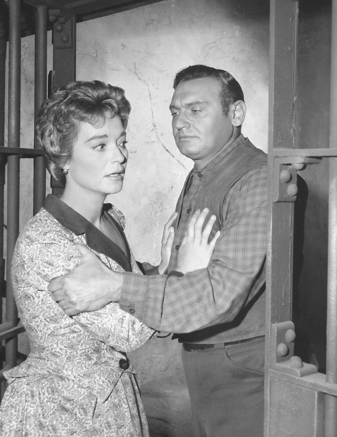 Photo of Nan Grey and Frankie Laine as guest stars on an episode of Rawhide. Grey and Laine were married from 1950 until her death in 1993. Laine, who is primarily known as a vocalist, sang the show's Rawhide title theme.